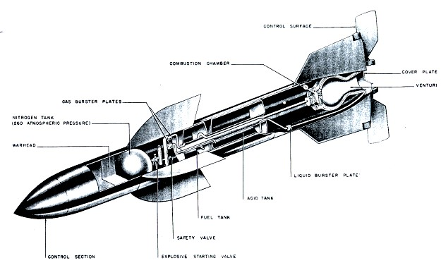 This flak rocket was given the name Wasserfall and the designation C-2 8/45